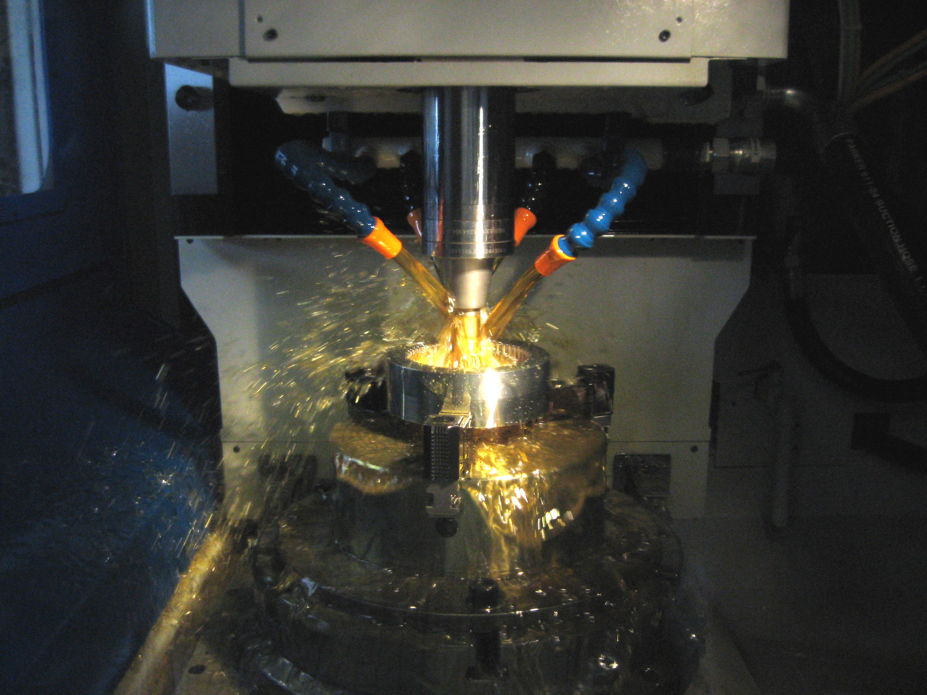 Gear shaping